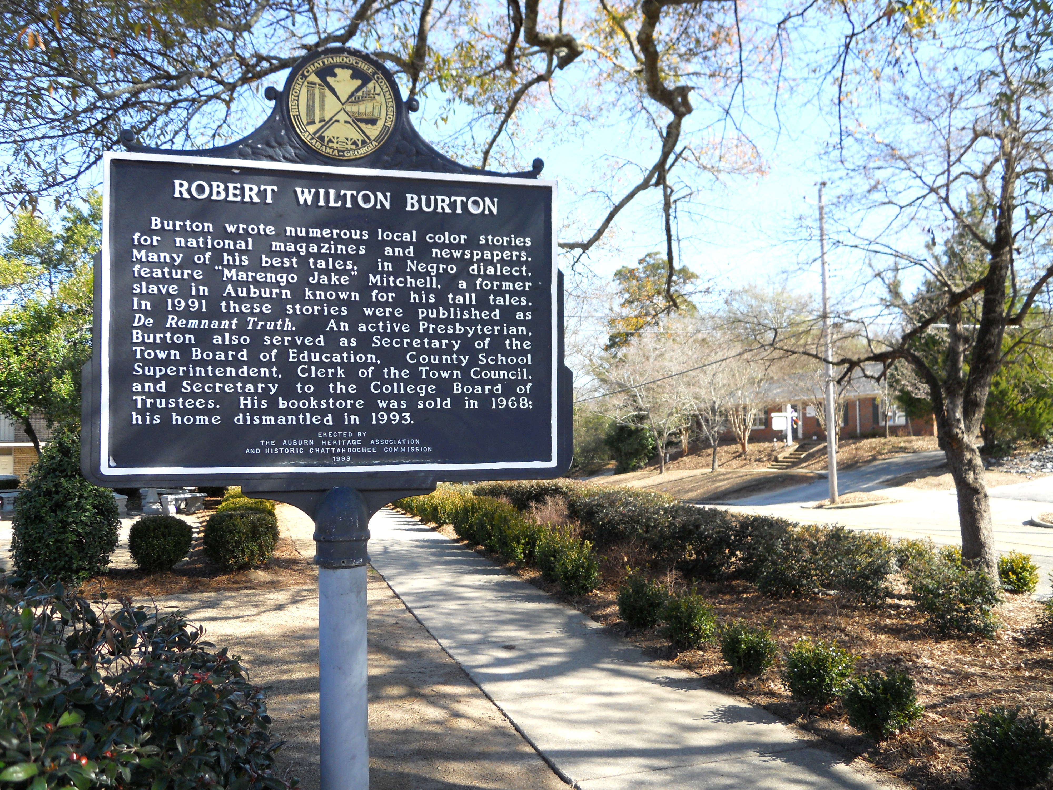 This is a picture of the historic marker which stands in the former location of the Robert Wilton Burton House located at 315 E. Magnolia Ave. in Auburn, Alabama.